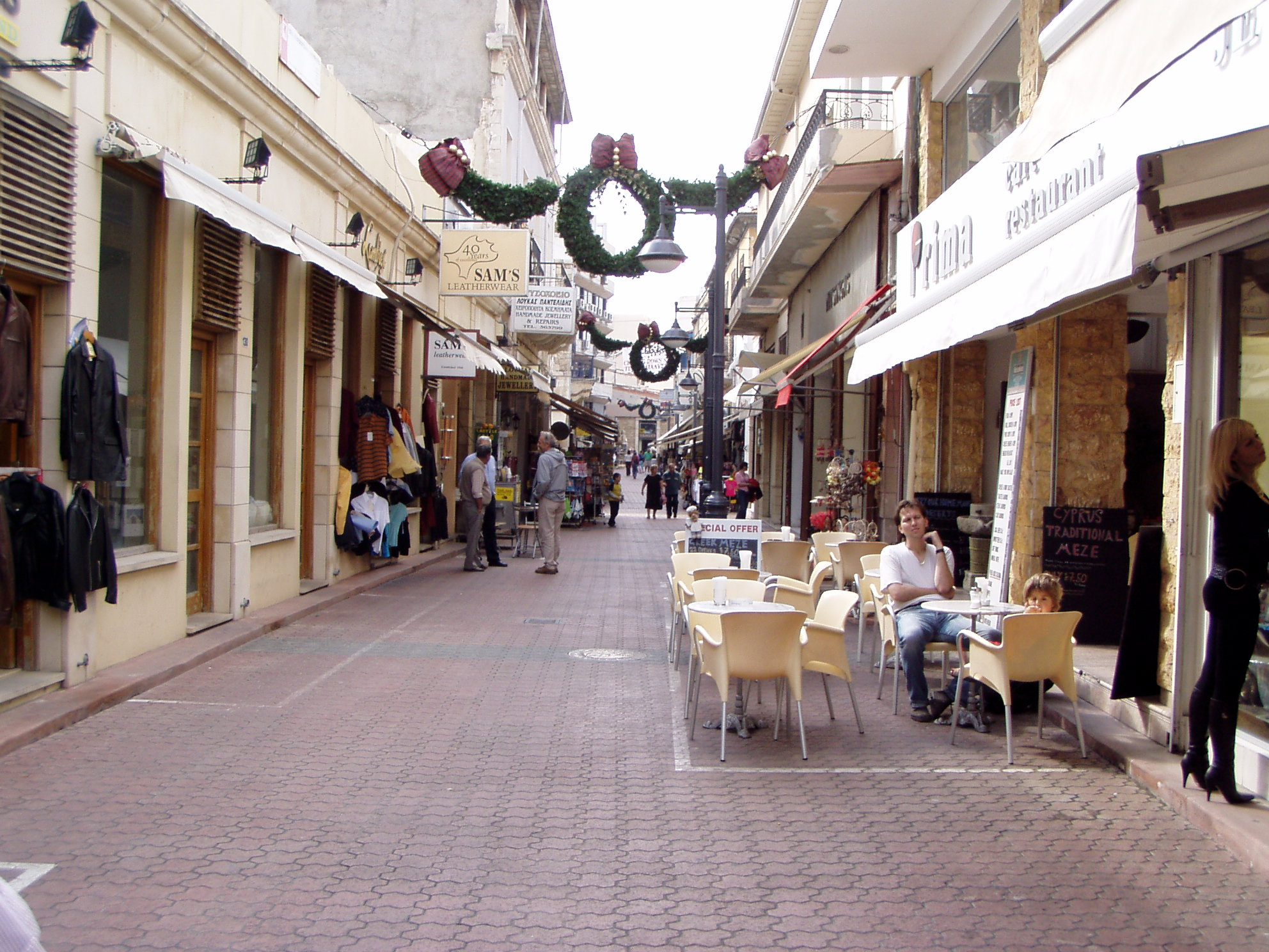 Street in Limassol